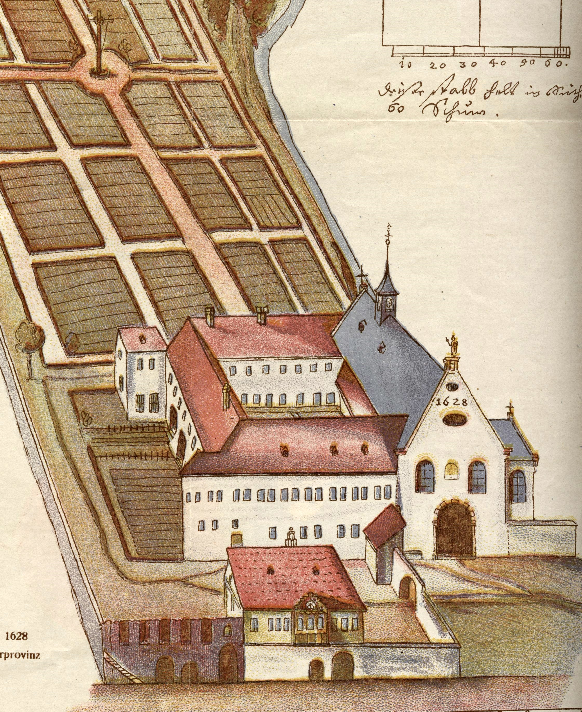 Speyer, Kapuzinerkloster und Ägidienkirche, 1628